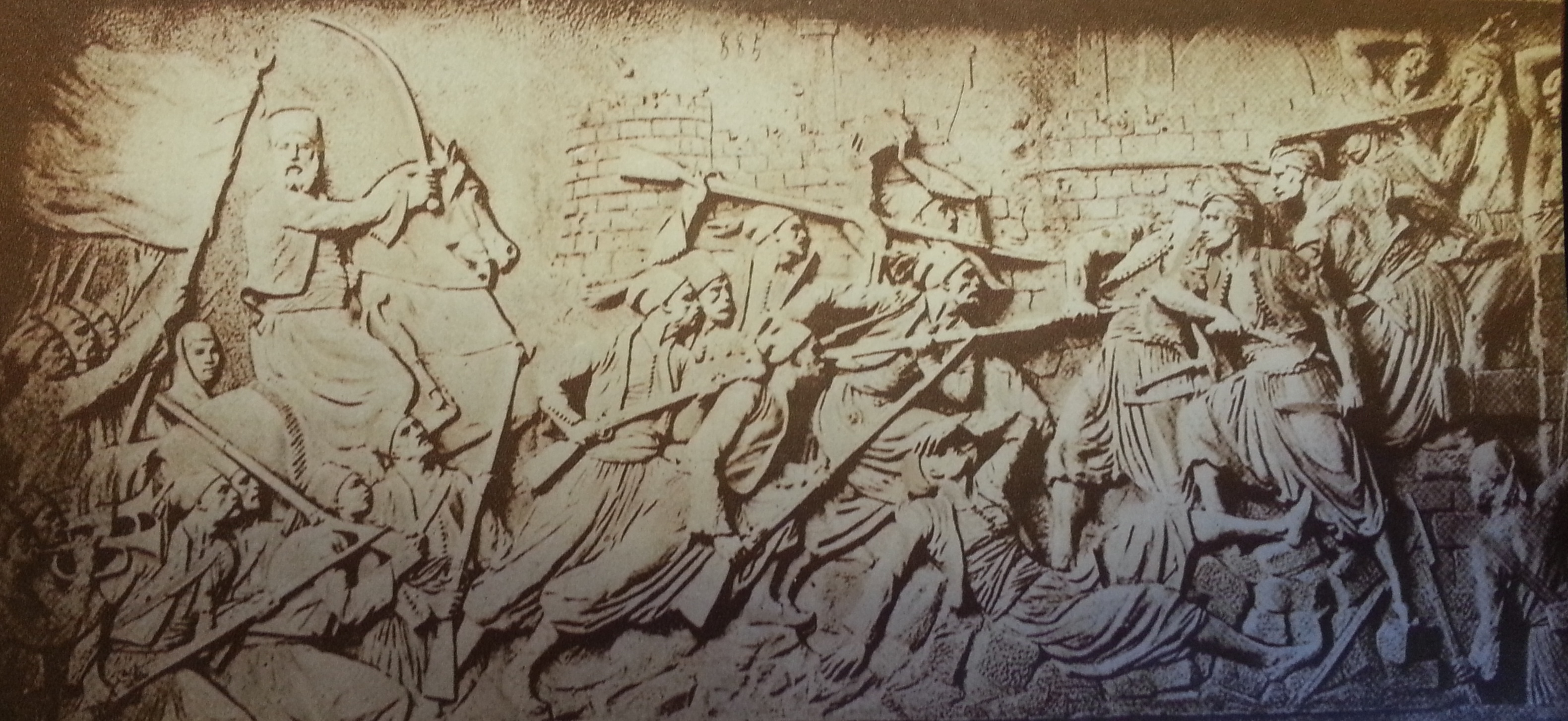 Ibrahim Pasha and his army penetrating the mighty walls of Acre. Photo of a Medallion Presented to Dar Al-Kutub Al-Misryya Publishing house, by Mahmud Fakhri Pasha.